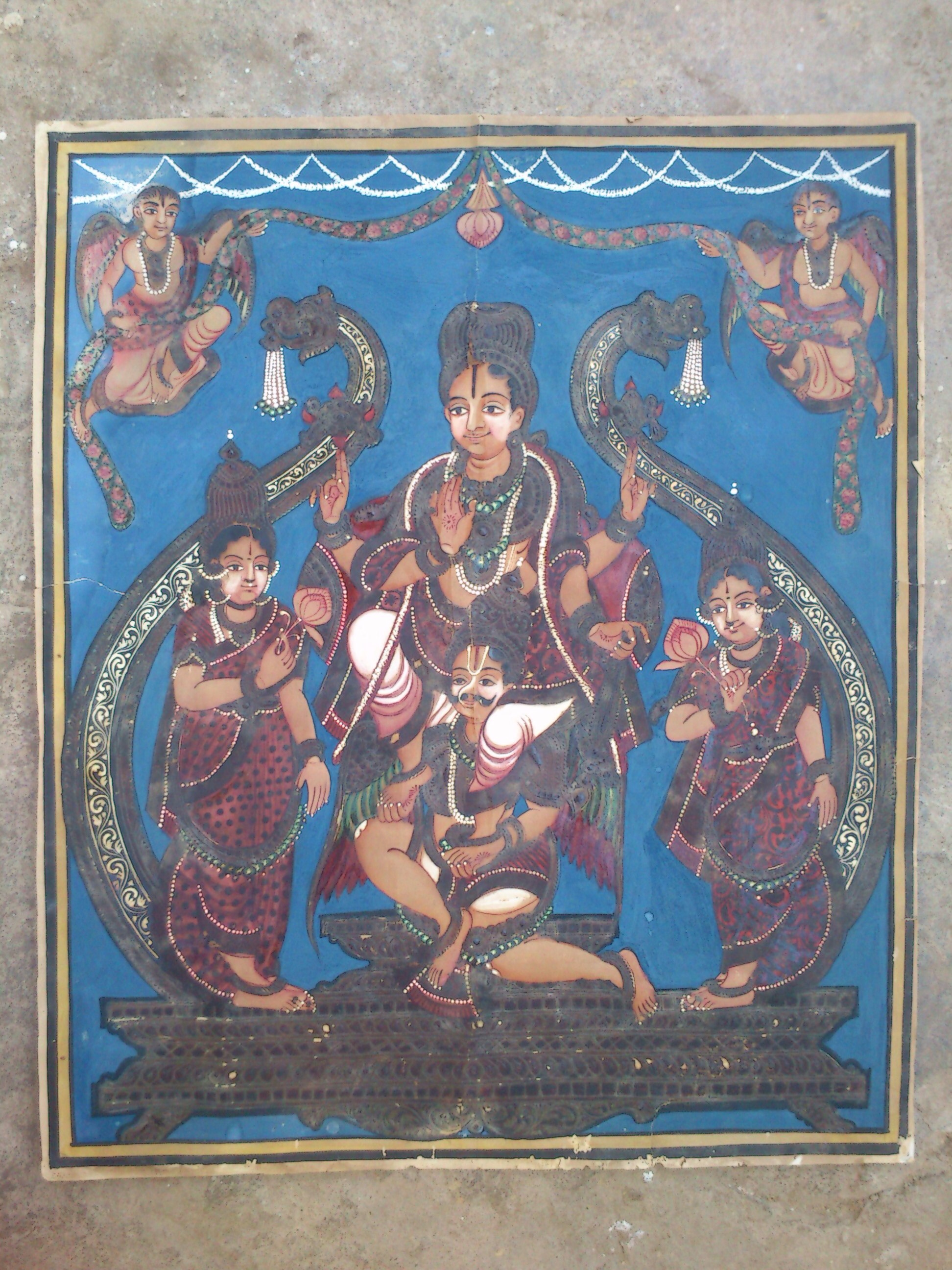 A Mysore painting of Melkote Cheluvaraya swamy